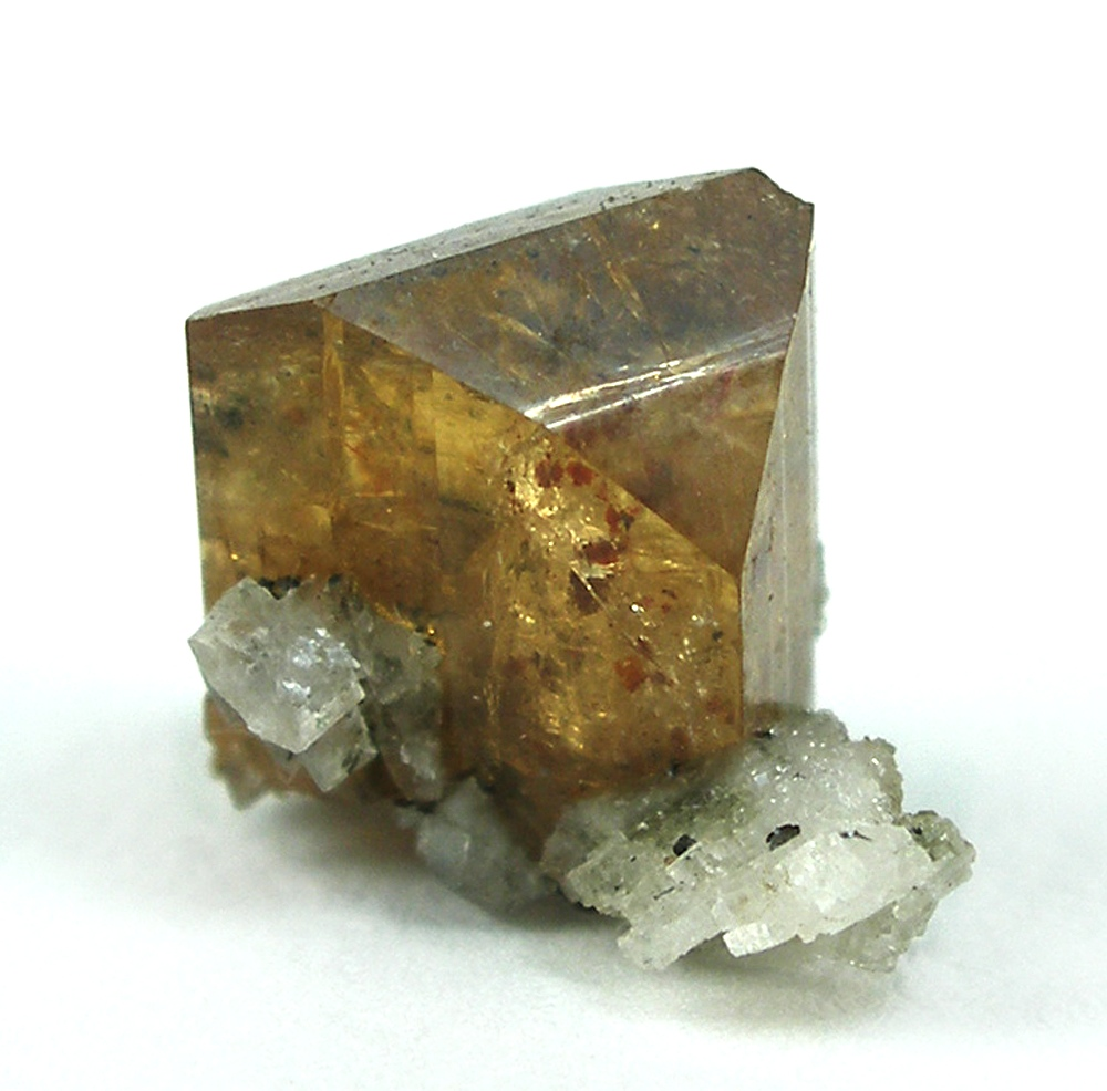 Kainosite-(Y) Locality: Amphibolite quarry, Urenkopf Mt., Haslach, Black Forest, Baden-Württemberg, Germany (Locality at ) Size: thumbnail, 0.8 x 0.6 x 0.4 cm Kainosite-(Y) A FACET-QUALITY, transparent, gem Kainosite crystal of a relatively large size for this species, from a classic locale. This crystal is gemmier in person, and really bright in lustre. It is from an old German collection being quietly dispersed. Although small, it is a superb example of the species in unusually fine quality.